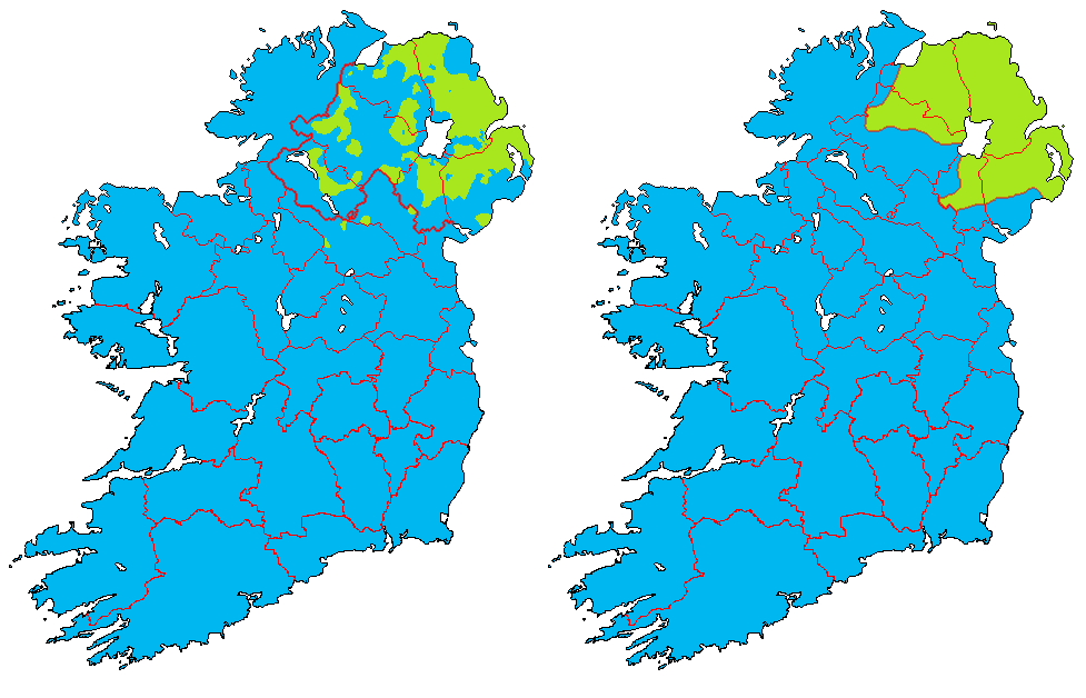 To the left is a map showing the religious divisions in Ireland in 1991 (based on the census of both states (UK and ROI)). Areas in which the majority of the population was Protestant/unionist/loyalist are shown in green, whilst areas in which the majority of the population was Catholic/nationalist/republican are shown in blue. To the right is an image of the proposed settlement of a repartitioned island. Many areas of Northern Ireland would have been ceded to the Republic. Those areas which would remain part of Northern Ireland (and thus stay in the UK) are shown in green, whilst those areas which would have formed the enlarged Republic are shown in blue. Red lines are county boundaries.